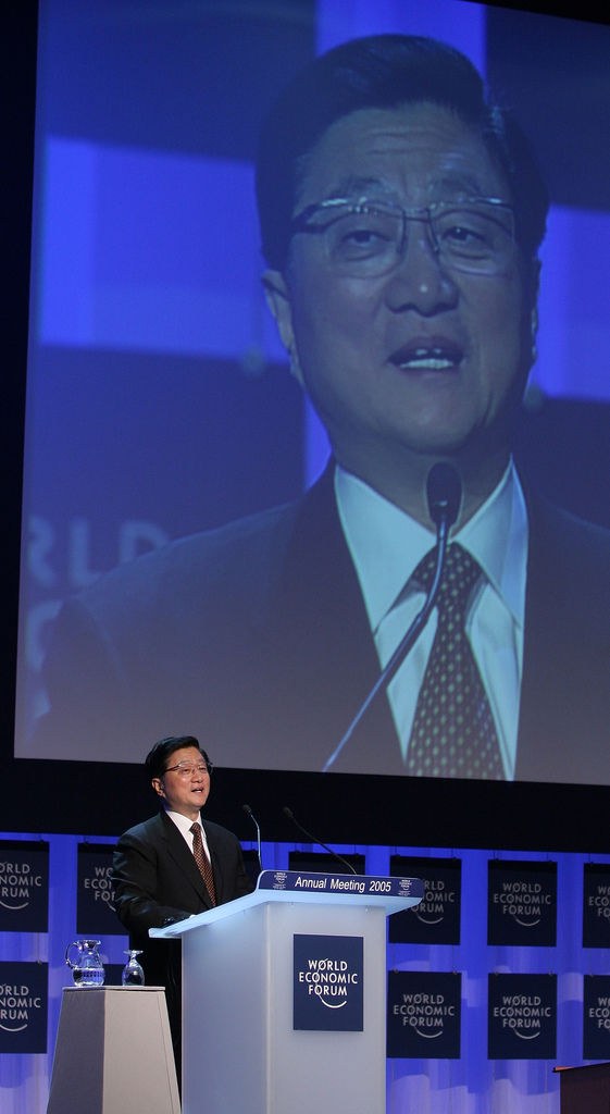 DAVOS/SWITZERLAND, 29JAN05 - Huang Ju, Executive Vice-Premier of the People's Republic of China, captured during the session 'Special Message 7: Asia' at the Annual Meeting 2005 of the World Economic Forum in Davos, Switzerland, January 29, 2005. Copyright by World Economic Forum by E.T. Studhalter